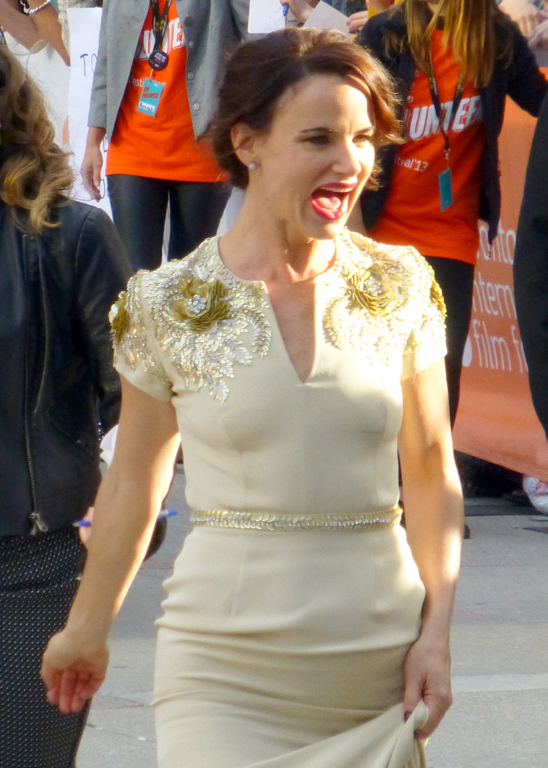 Juliette Lewis at the premiere of August: Osage County, Toronto Film Festival 2013